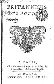 Title page from 1670 edition of Britannicus by Racine